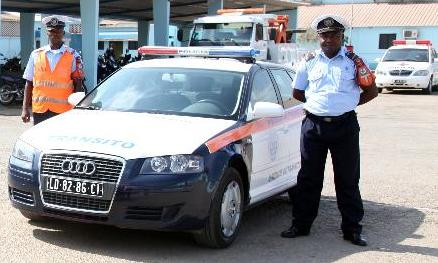 Chief Inspector of Police Nacional de Angola